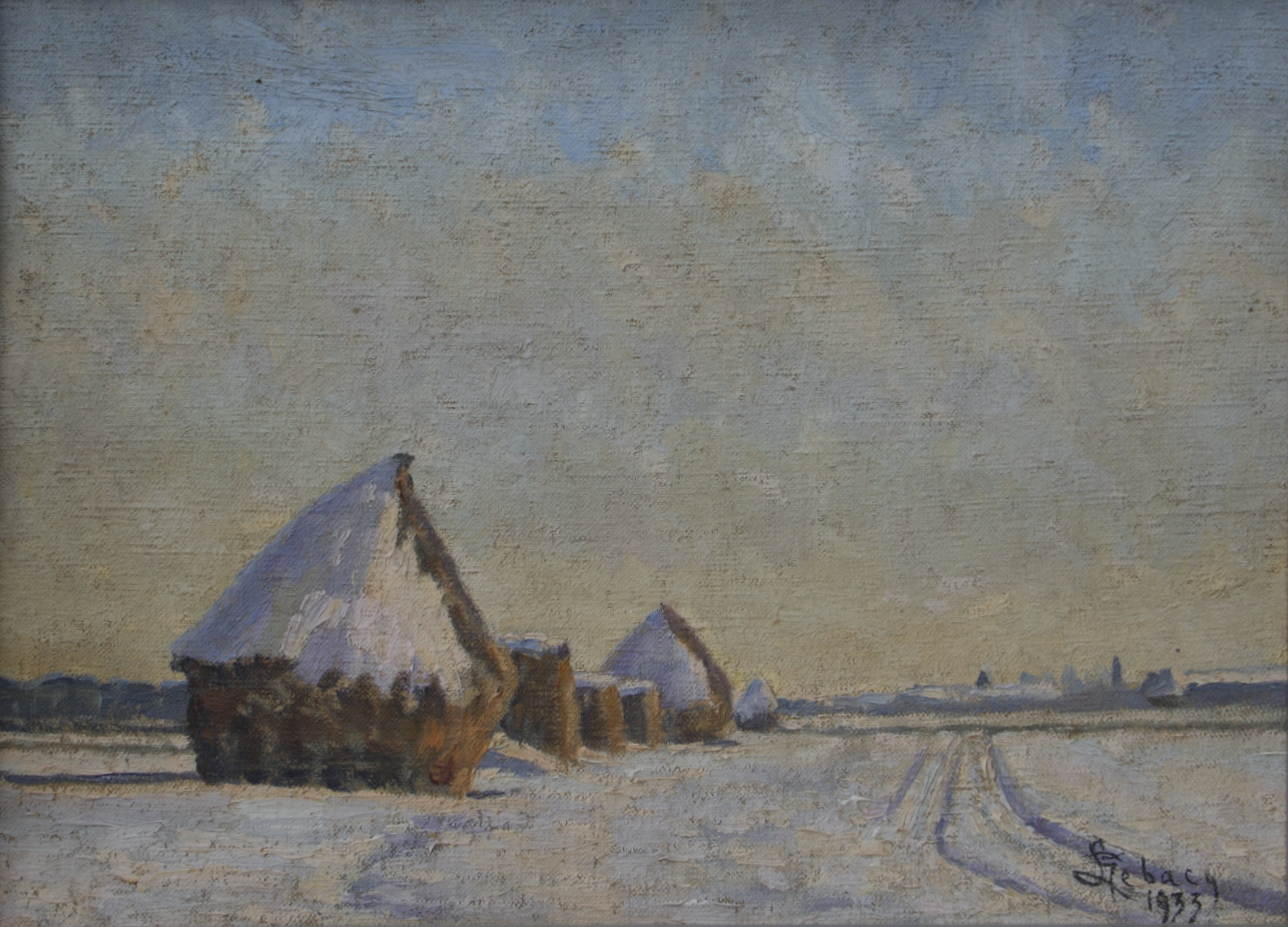 Stacks at Chamant (France) in Winter by Georges Emile Lebacq.